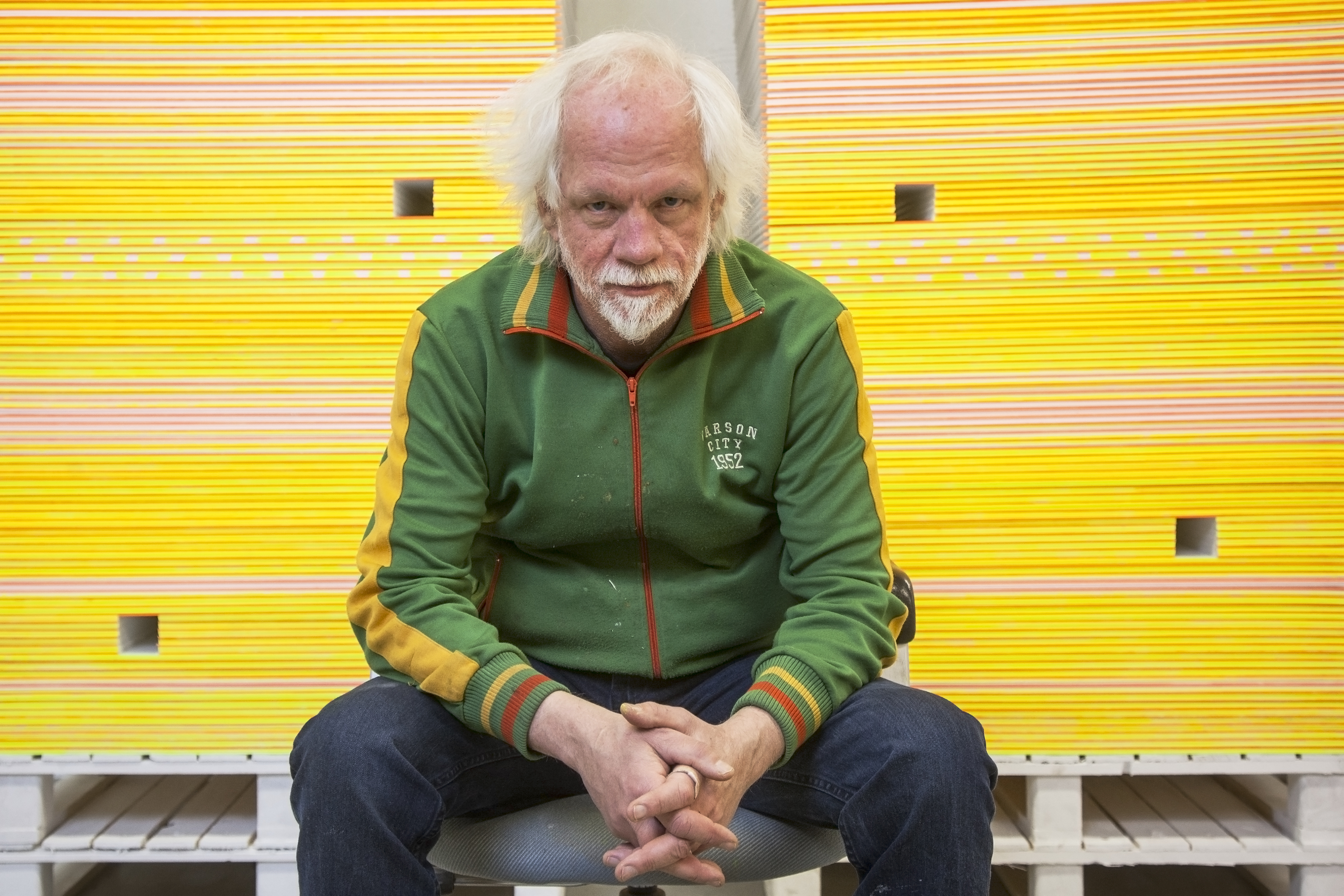 Konstnären Nils Olof Hedenskog.